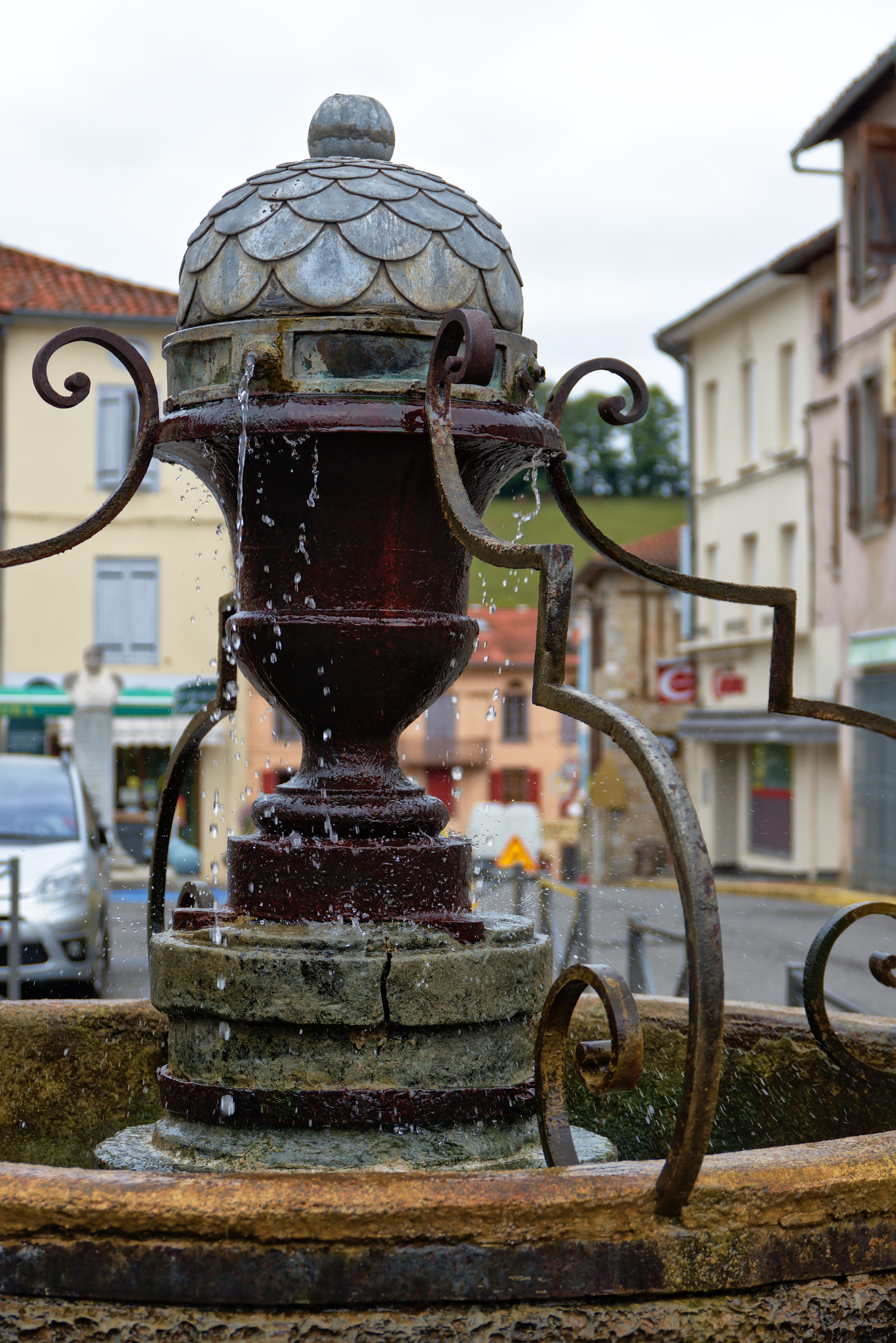 Fountain of Aspet, Haute-Garonne, France.